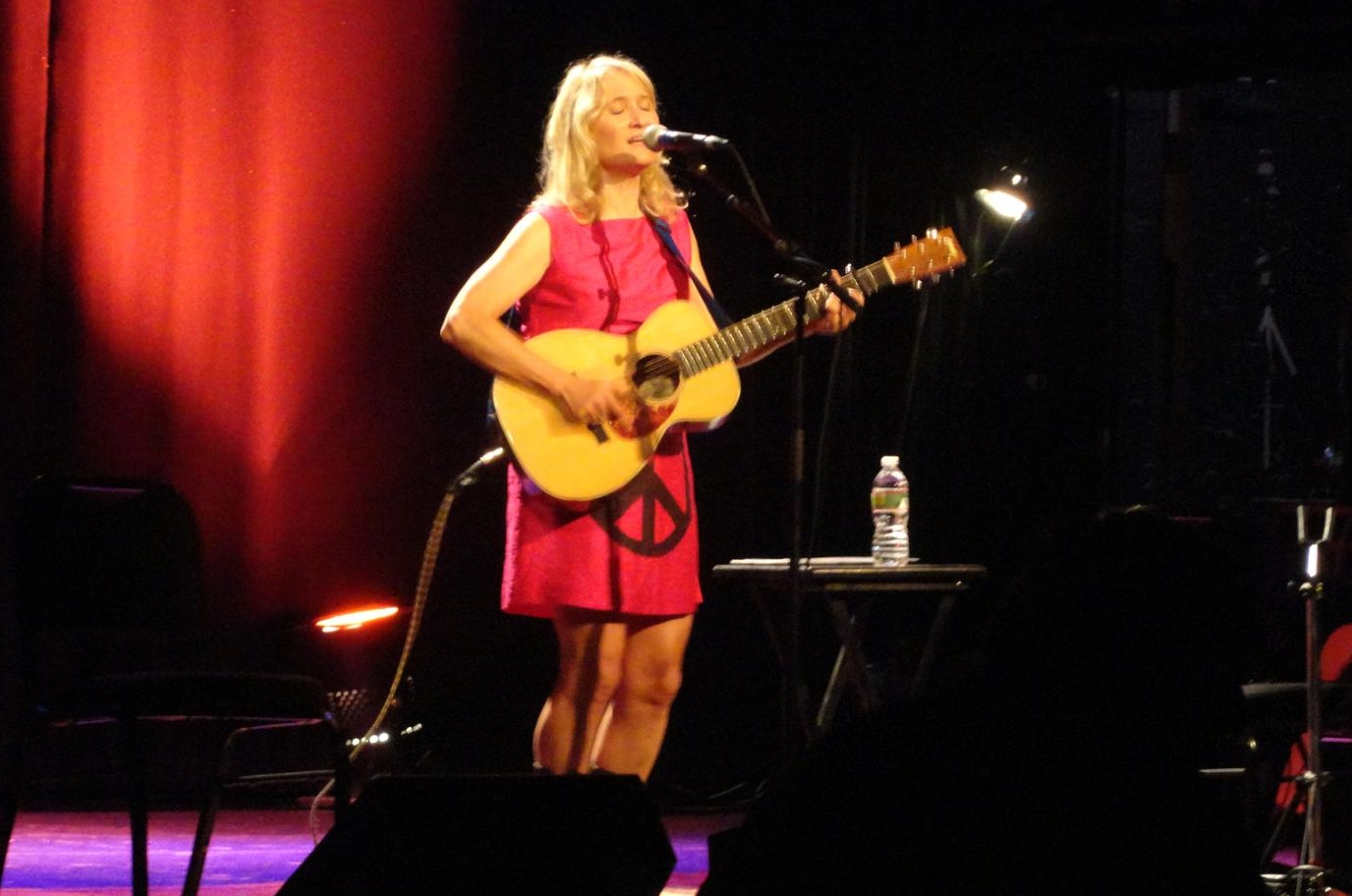 humorous songwriter Jill Sobule opened for Hot Tuna---Jorma Kaukonen-guitar/vocals; Jack Casady (bass); plus Barry Mitterhoff (mandolin). Performed at The Somerville Theater near Boston, Mass. on June 18, 2013.